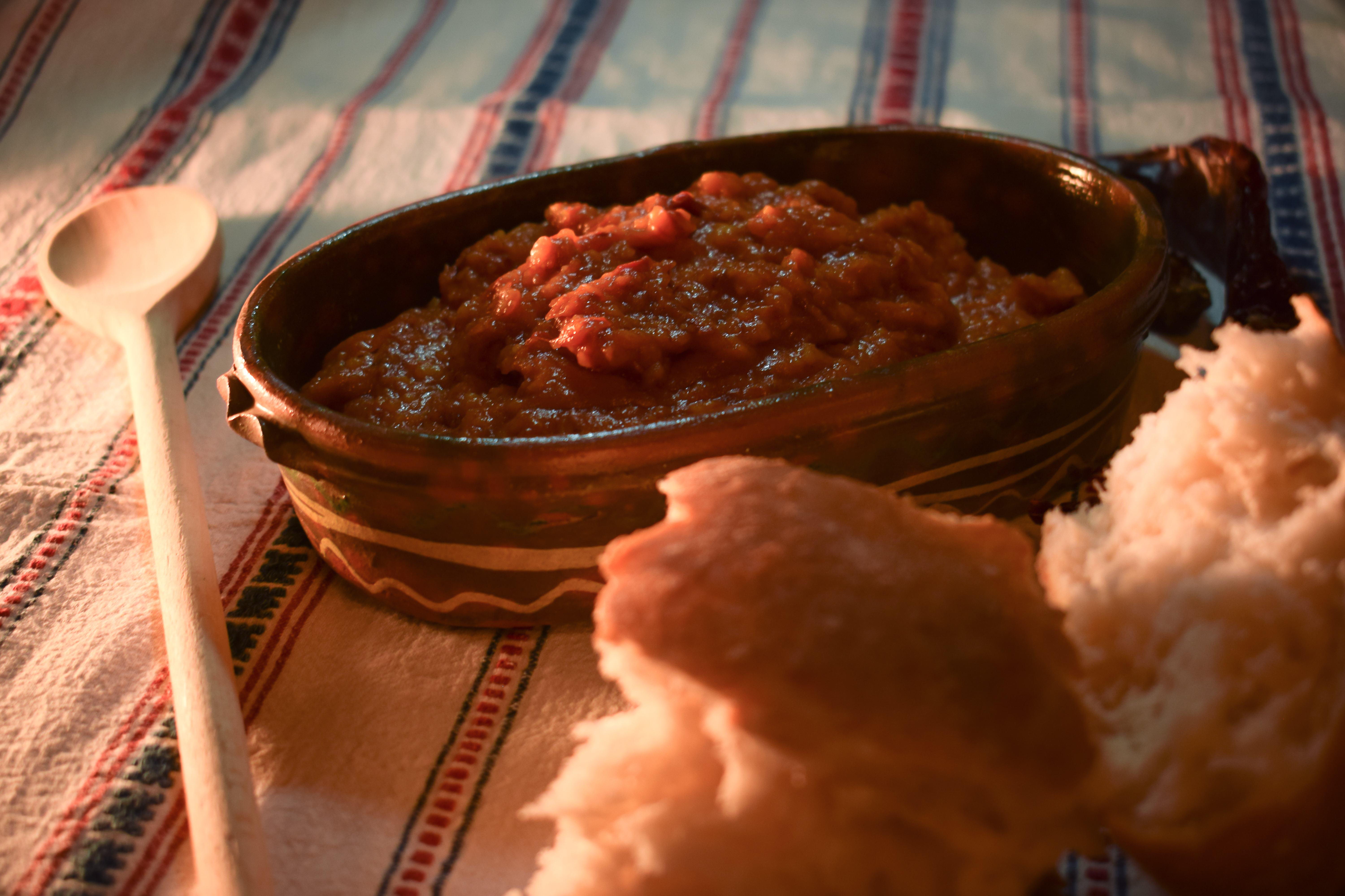 specialty dried peppers with potatoes